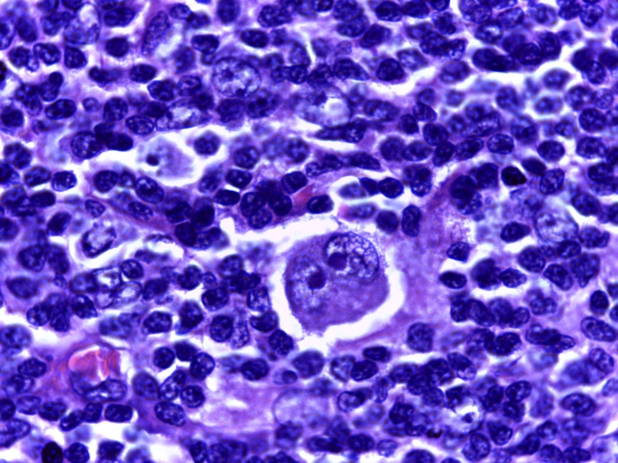 Micrograph of a lymph node in Hodgkin's lymphoma with the characteristic Reed-Sternberg cell. RS cell is a large cell with abundant amophophilic cytoplasm and binucleate mirror image nuclei. Each nucleus contains an acidophilic nucleolus surrounded by a halo.